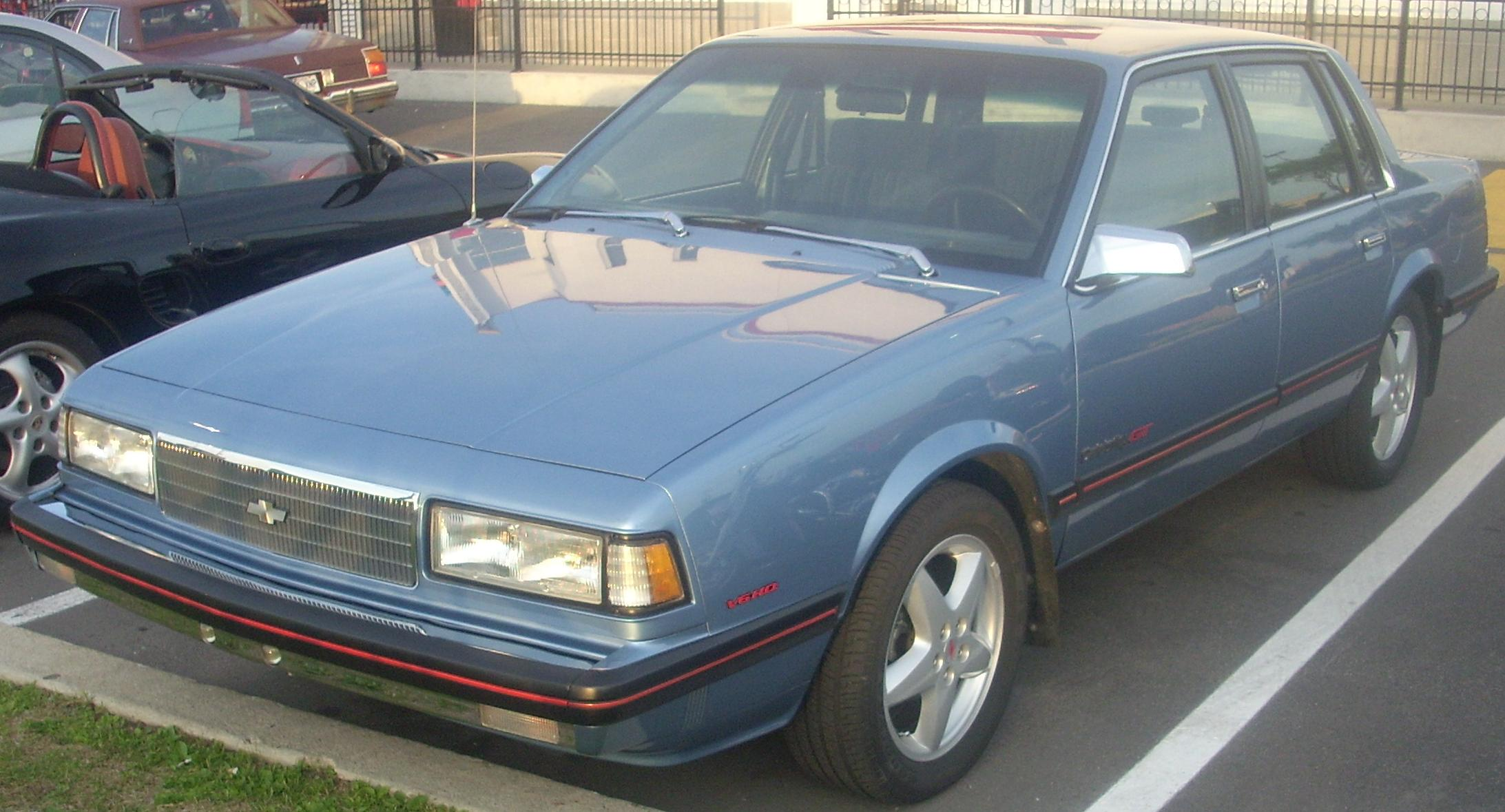 1987-1989 Chevrolet Celebrity photographed in Montreal, Quebec, Canada.